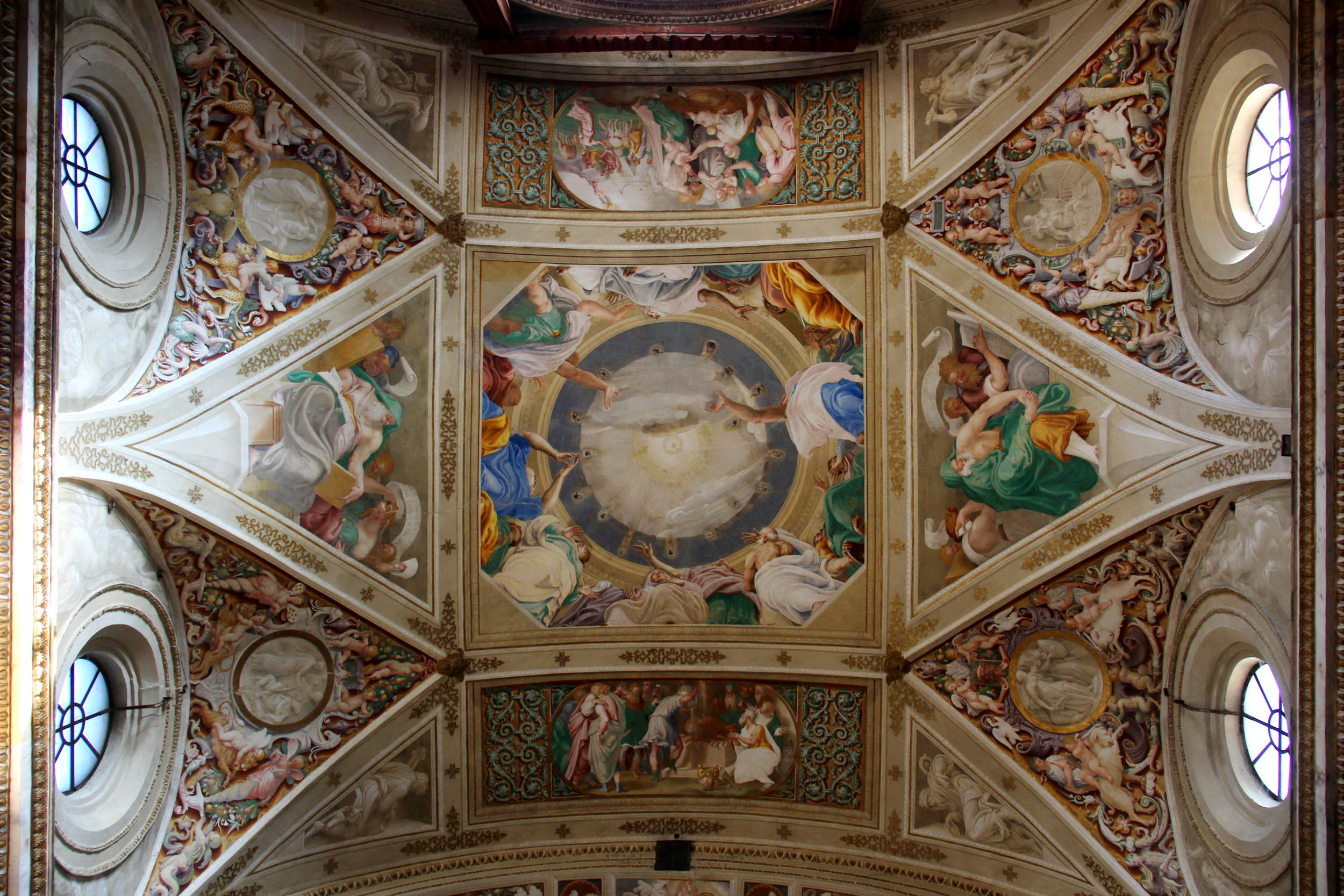 Frescoed vault, Complesso di San Sigismondo, Cremona, Lombardy, Italy San Sigismondo Native nameChiesa di San SigismondoLocationCremona, Lombardy, ItalyCoordinates45° 07′ 32.24″ N, 10° 03′ 14.33″ E Established15th century date QS:P,+1450-00-00T00:00:00Z/7Authority control : Q3672044 institution QS:P195,Q3672044